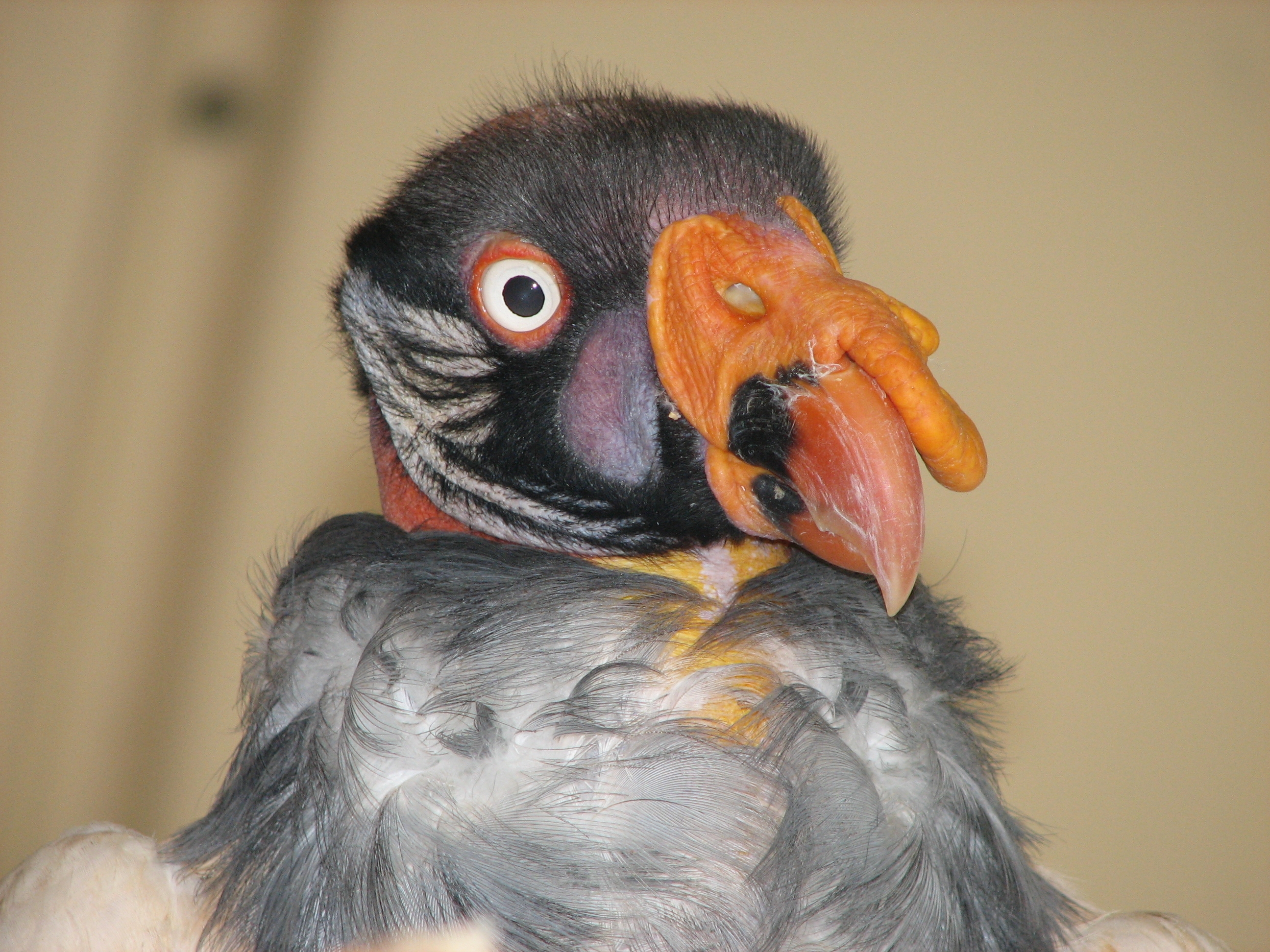 King Vulture - Sarcoramphus papa at the Potter Park Zoo in Lansing Michigan